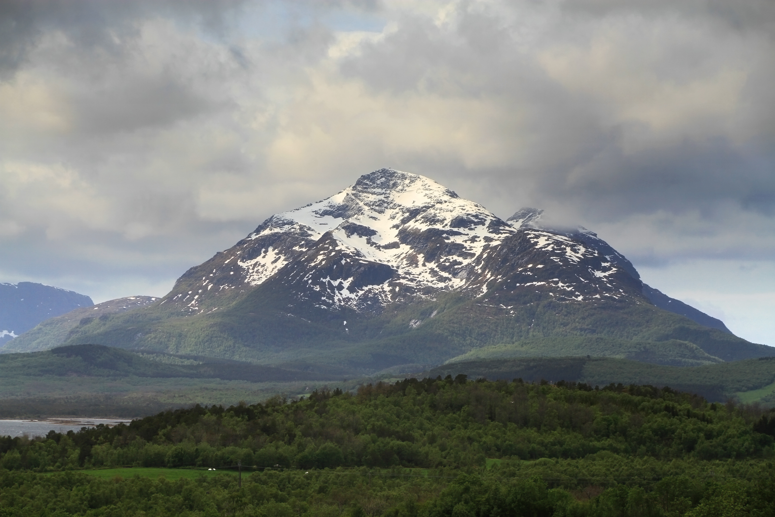 Vågsfjellet in Hamarøya, Hamarøy, Nordland, Norway in 2011 June.